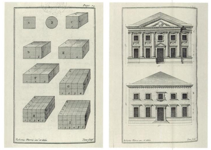 Robert Morris system ofproportions